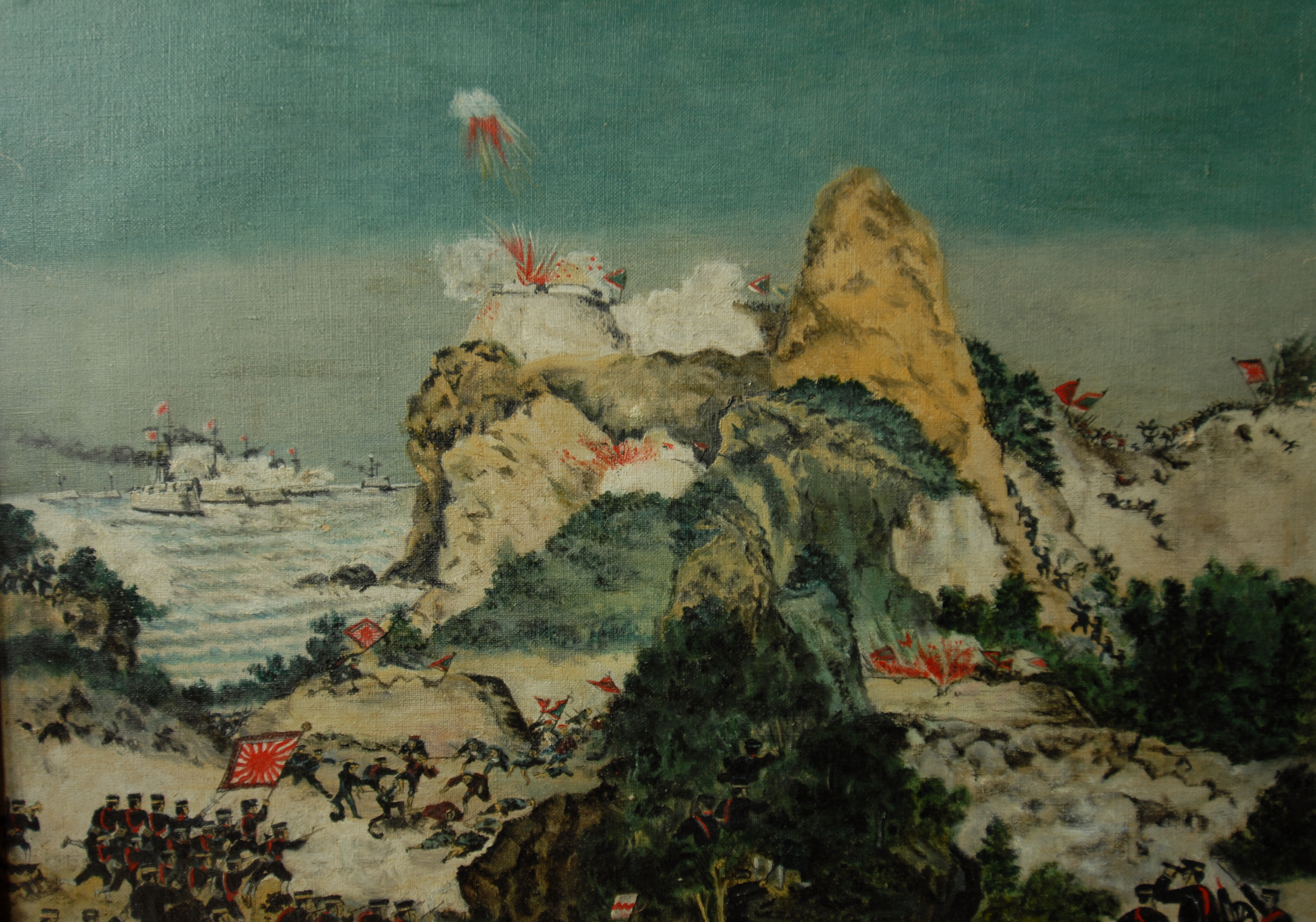 Military engagement between the Japanese and Chinese in the first Sino-Japanese War.